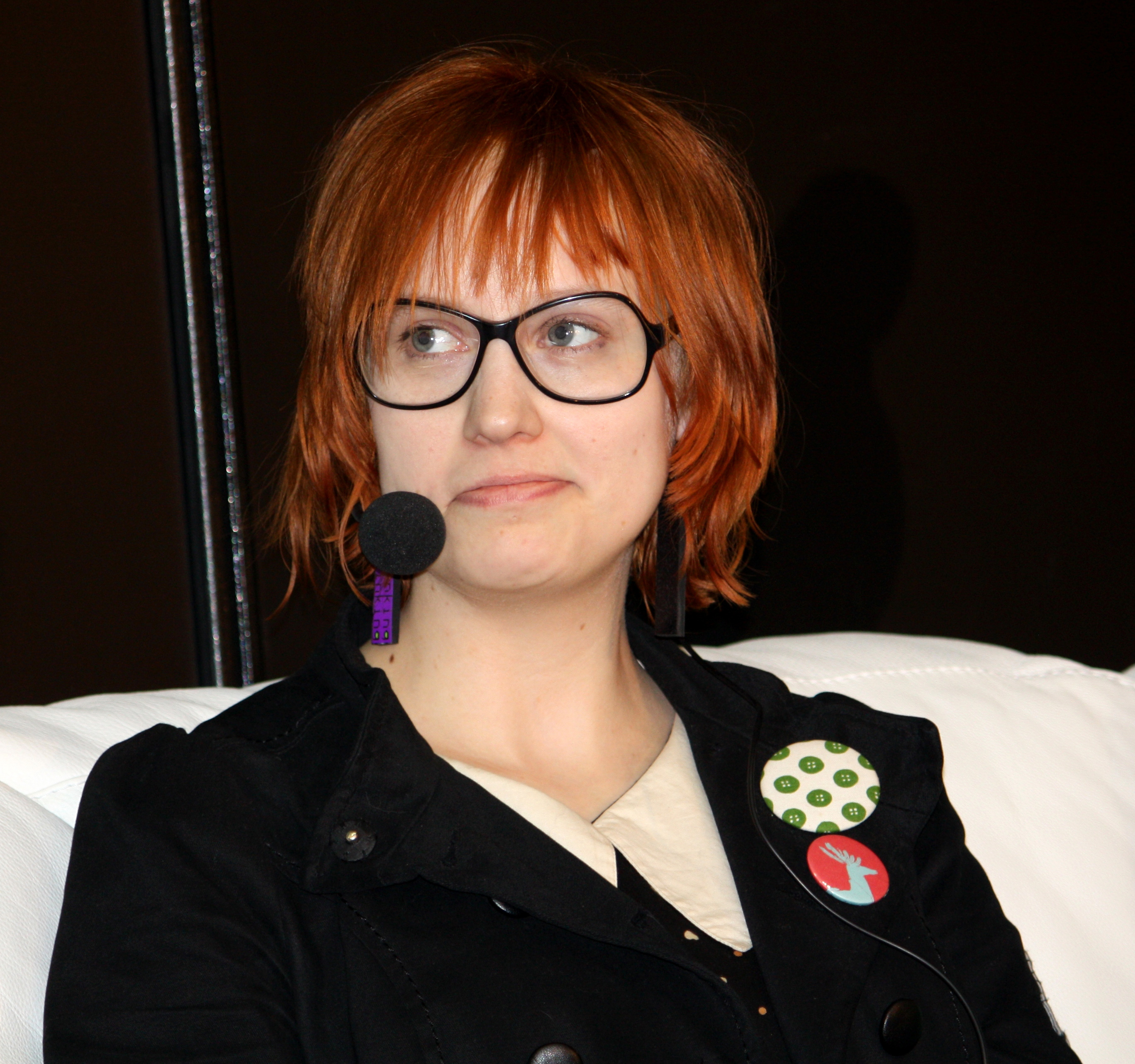 Finnish comics artist Milla Paloniemi at the Tampere Book Fair 2012